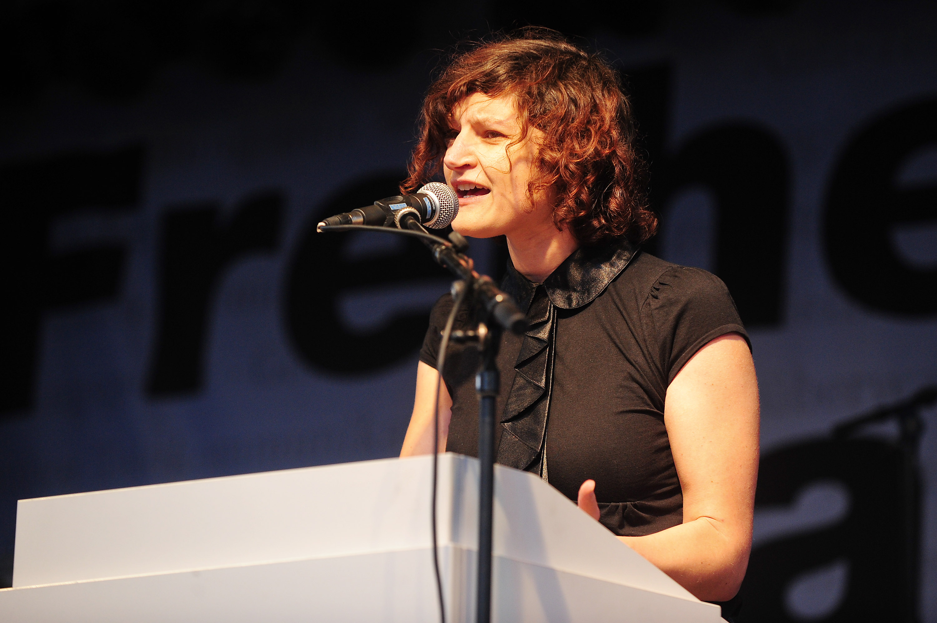 Franziska Heine auf der Demonstration "Freiheit statt Angst" 2009